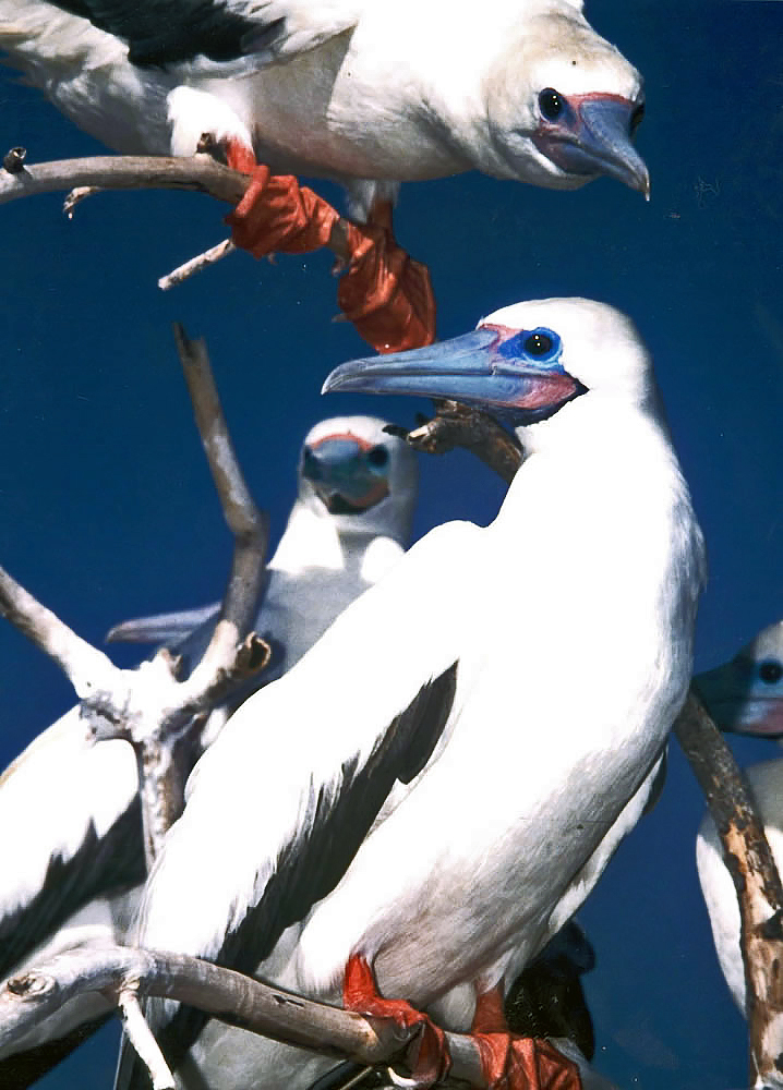 Red-footed Booby Sula sula on Palmyra Atoll, Pacific Ocean